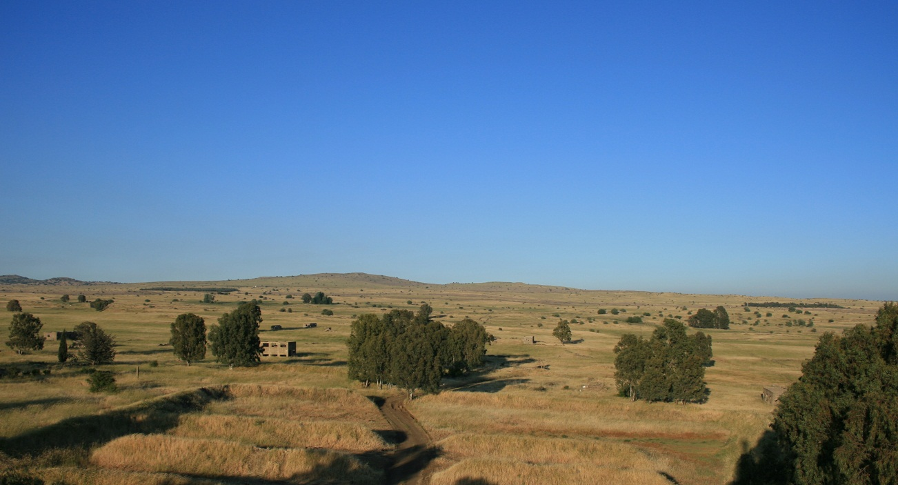 A view of A-Shaaf hill from the ruined town of Hushnia, central Golan Heights, Israel.